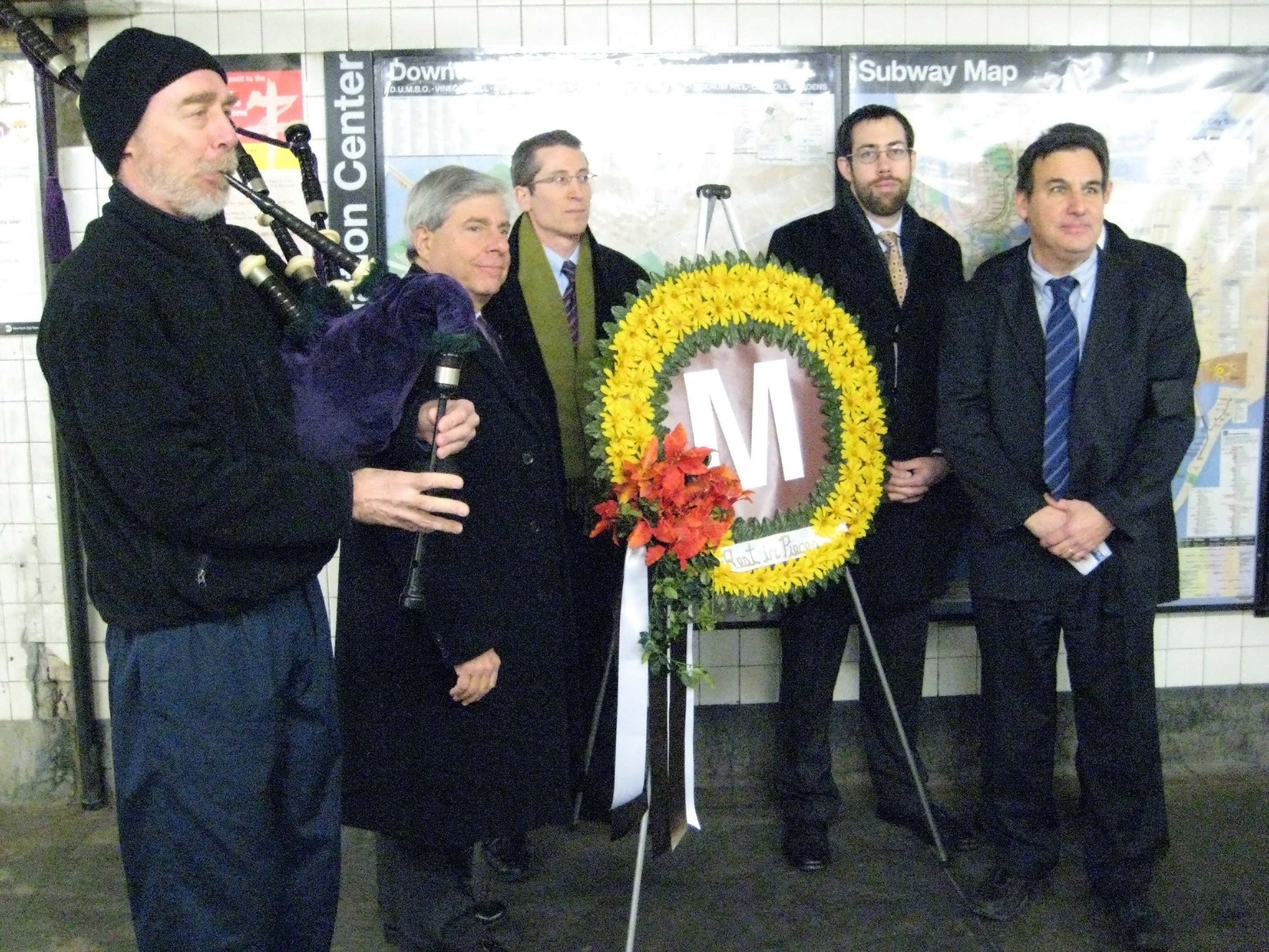 Brooklyn politicians and activists eulogize the death of the M and R train line. Speakers in order are: Marty Markowitz, Brooklyn Borough President, Daniel Squadron, New York State Senator, Michael Burke, Downtown Brooklyn Partnership, Paul Nelson, Assemblywoman Joan Millman's Chief of Staff